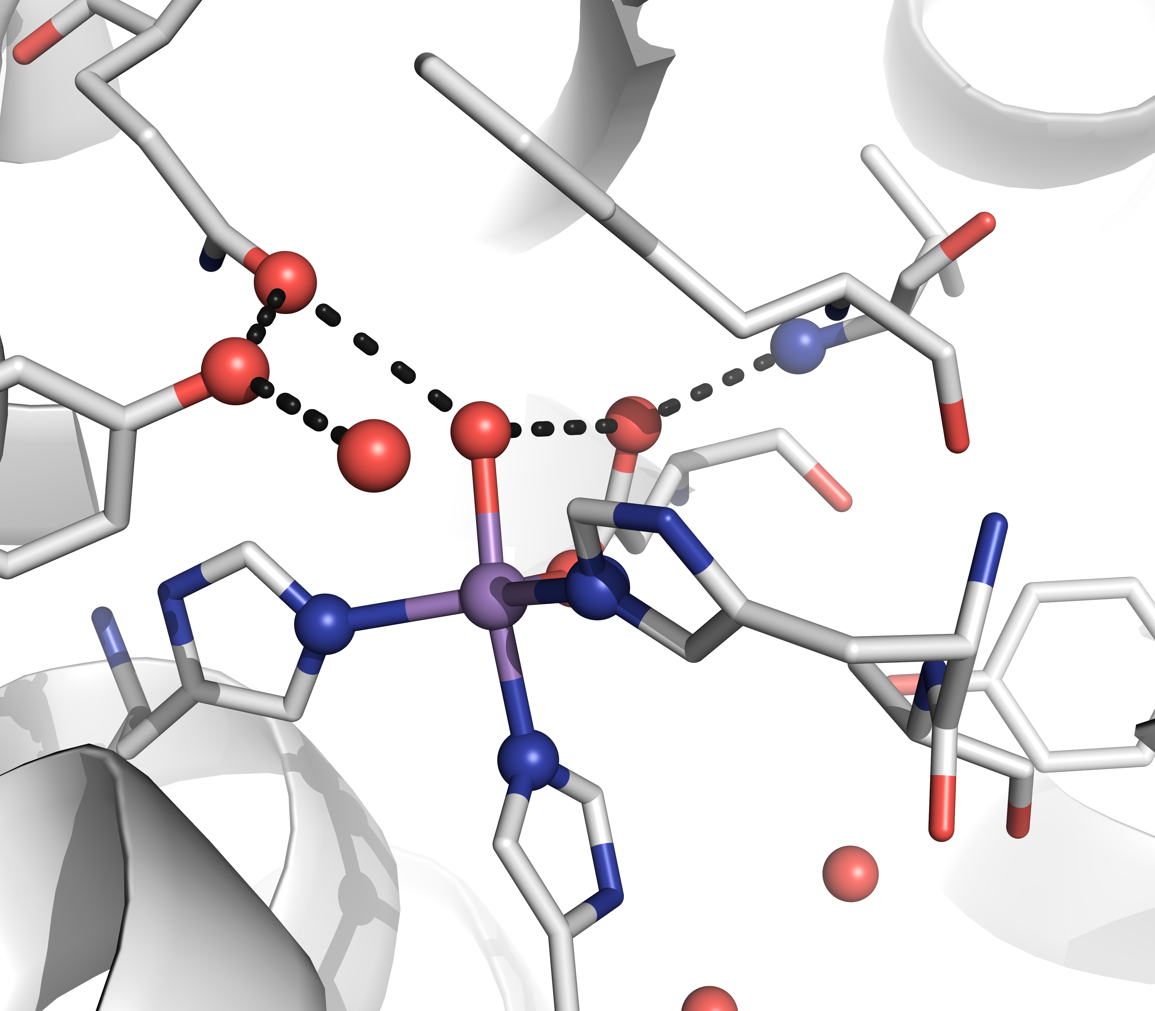 Crystal Structure of Human Manganese SOD (2ADQ)